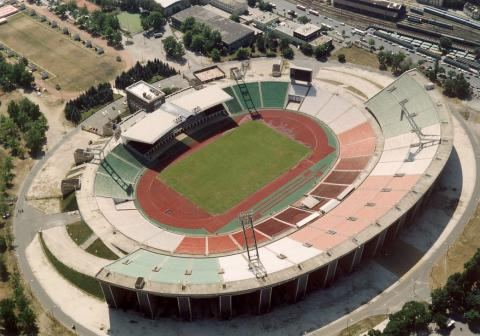 Népstadion, Budapest, Hungary, aerial photography